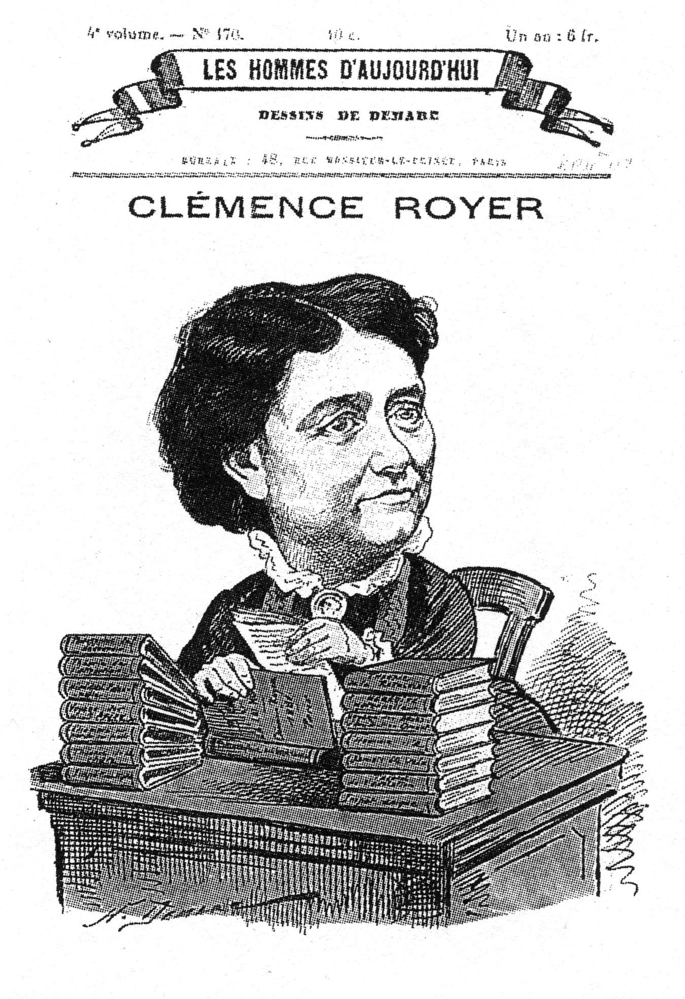 Caricature of Clémence Royer from Les Hommes d’aujourd’hui, Volume 44 , no 170 (1881). She is reading a copy of her new book, Le bien et la loi morale.